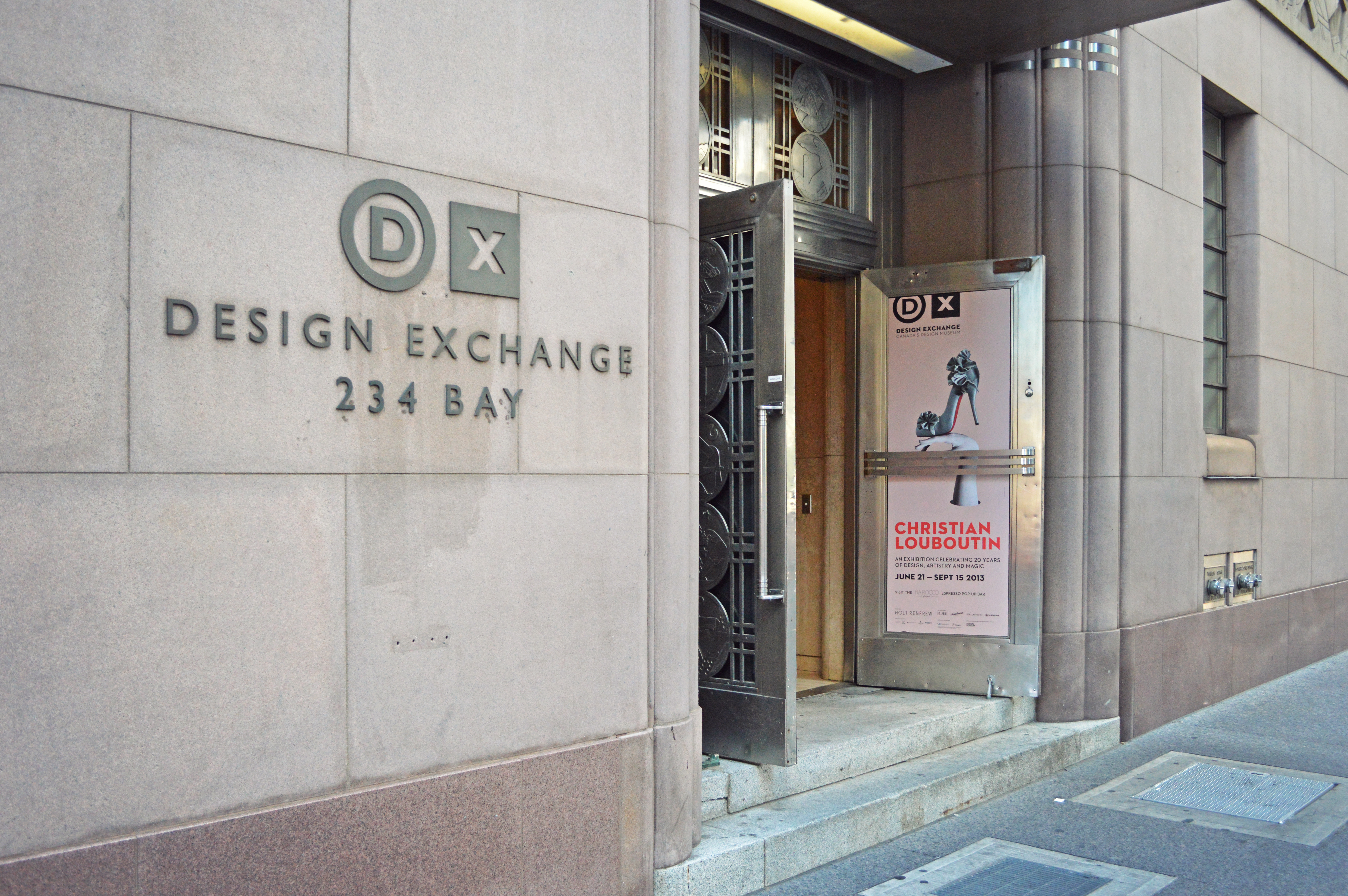 Christian Louboutin Exhibit at Design Exchange, Toronto, housed inside the old Toronto Stock Exchange building.